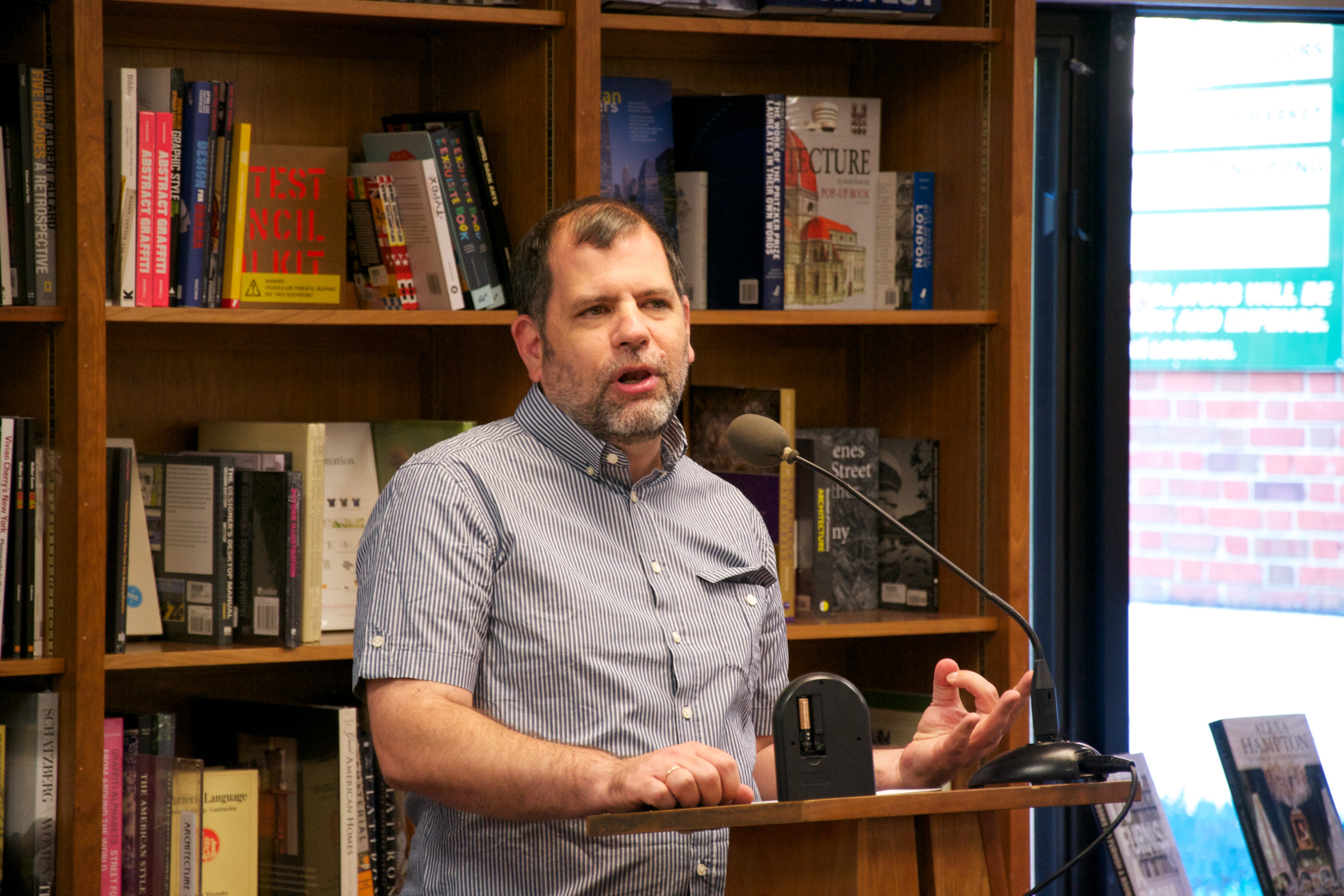 reading at Politics and Prose